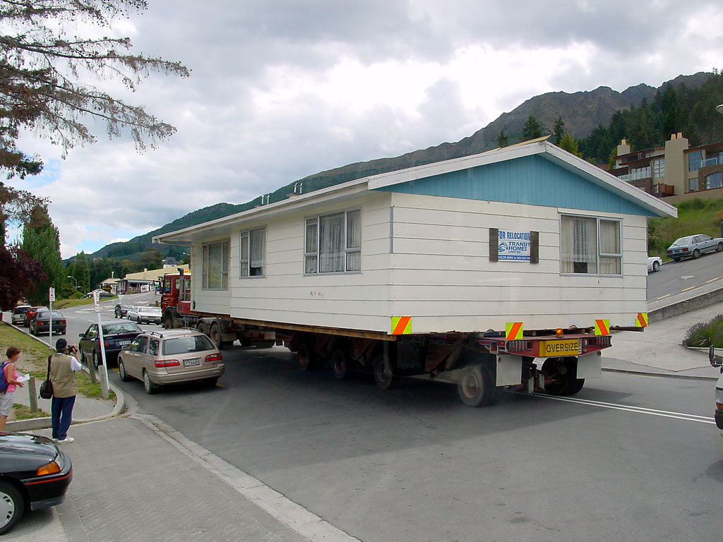 Transport of a house (photo taken in New Zealand)